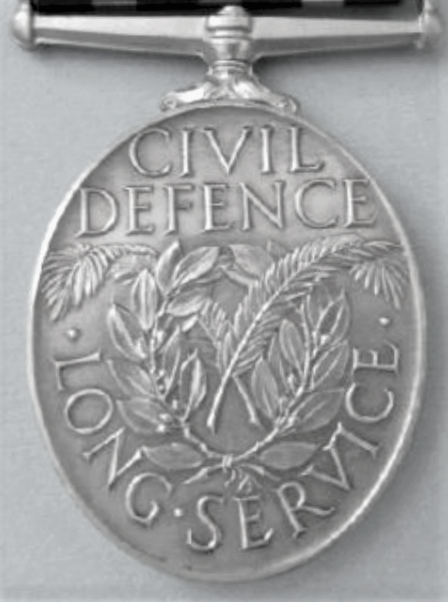 Reverse of the British Civil Defence Medal, post 1968